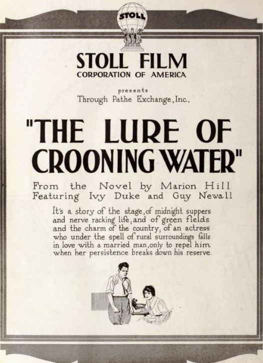 American advertisement for the British comedy romance film The Lure of Crooning Water (1920), on page 16 of the January 1, 1921 Exhibitors Herald. The ad does not include any stills from the film.